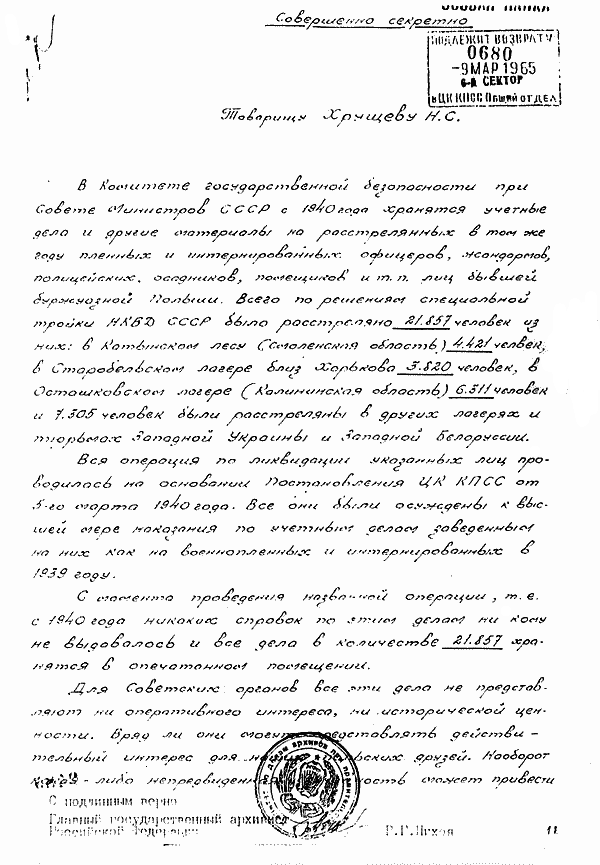 This is photocopy of official document legally transferred into the property of Polish Government, and first published in Poland, by Government of Poland in 1993.